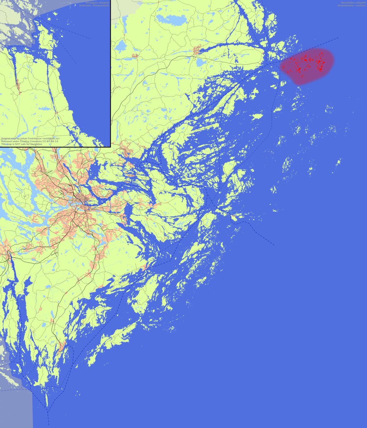 Location of Söderarm archipelago